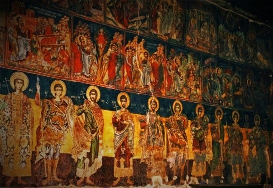 Saint Nicholas Church in Velvendo Frescos